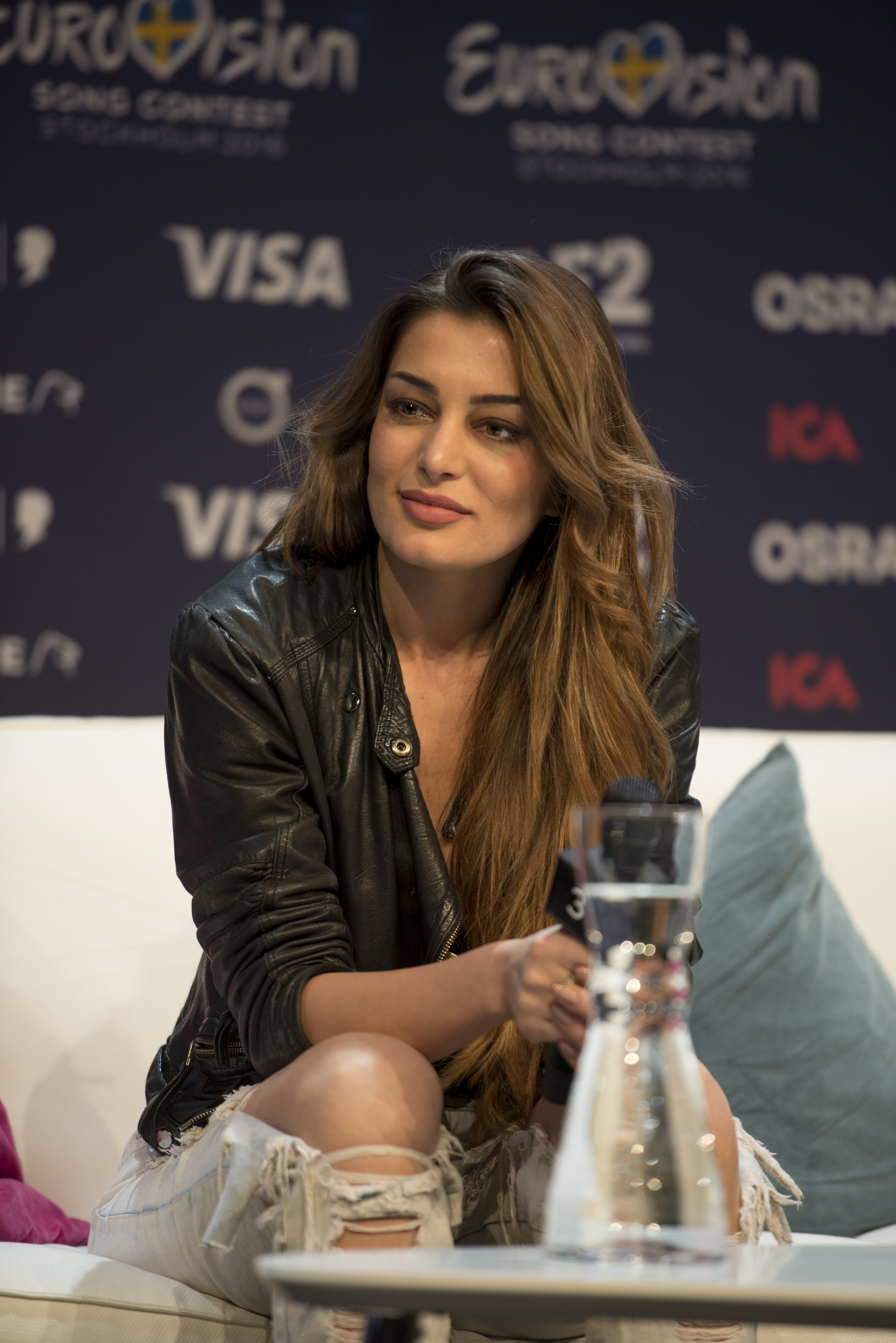 Iveta Mukuchyan at a Meet & Greet during the Eurovision Song Contest 2016 in Stockholm. (Help translate this text)